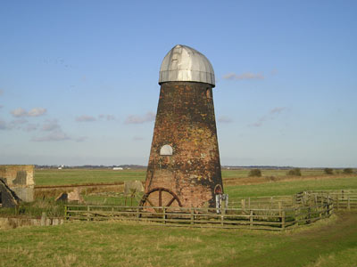 Lockgate Mill in 2004. Norfolkmills